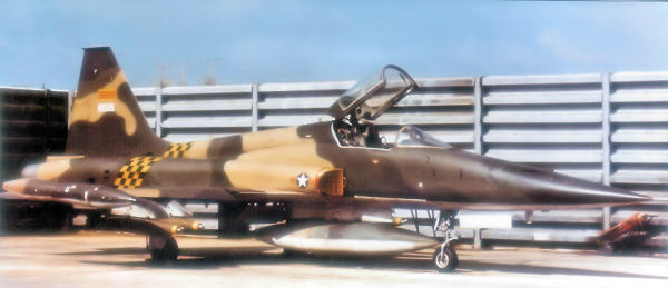 A Northrop F-5C Freedom Fighter of the 522d Fighter Squadron, 23rd Tactical Wing of the South Vietnamese Air Force (VNAF), Bien Hoa Air Base, 1971.